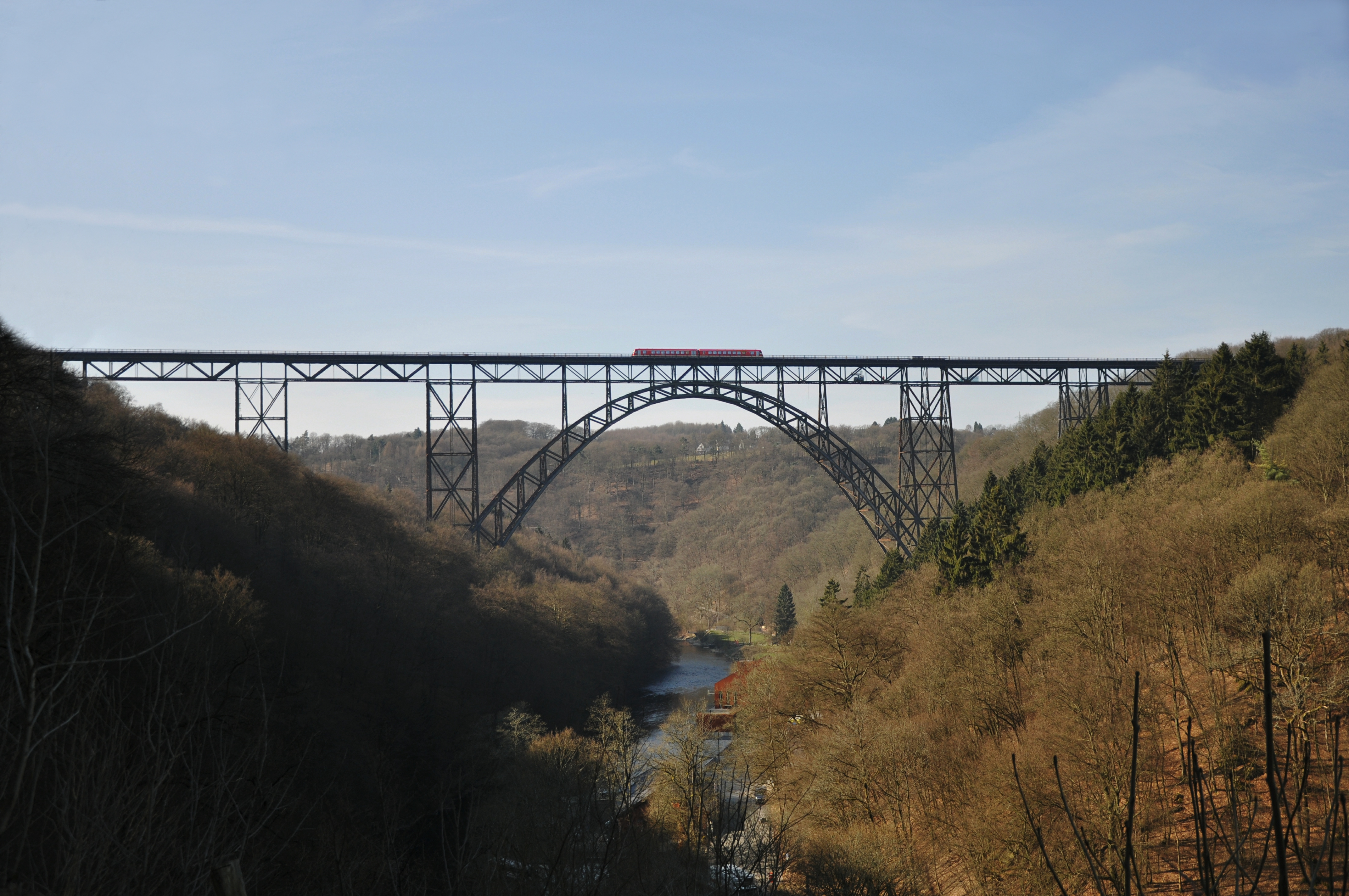 The Müngstener Brücke is the highest railway bridge in Germany and is frequented by RB 47 "Der Müngstener" every 30 minutes. This picture was taken in March 2013, one week before the bridge was closed due to changing the steel beams. When the bridge is reopened, silver multiple units of Abellio instead of the red DB Class 628 coaches will be on the way here.